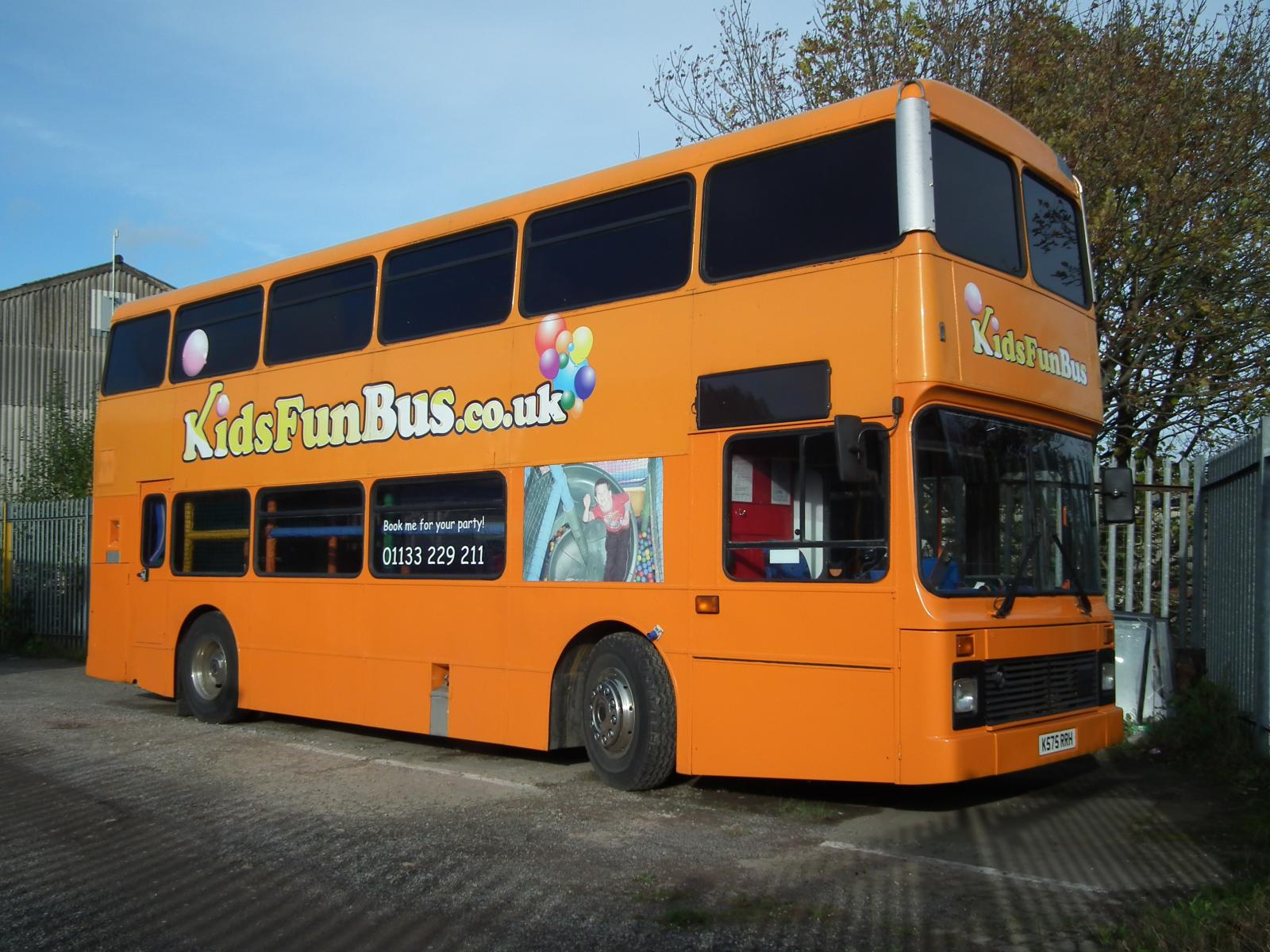 Leeds Paint Shops